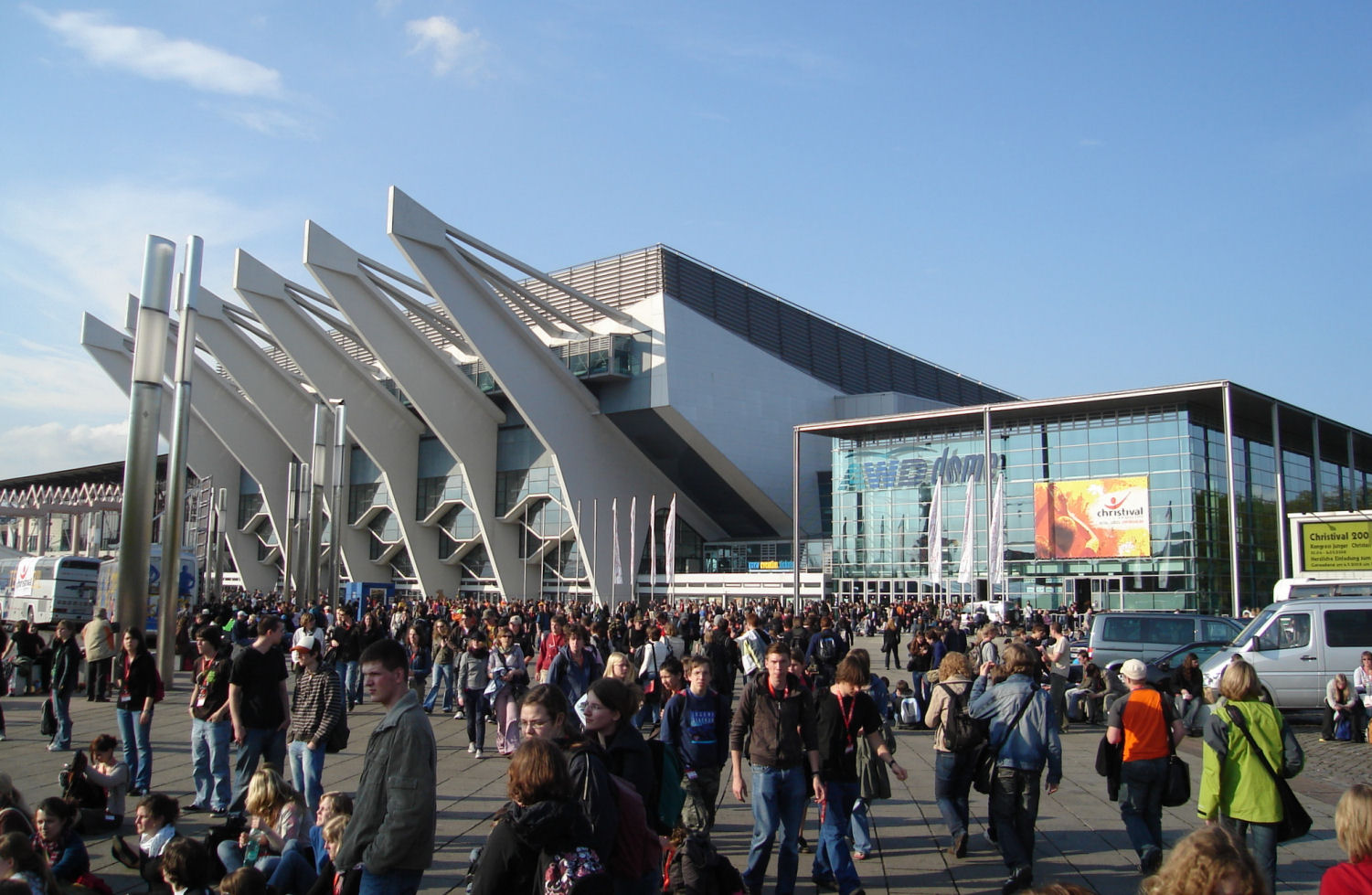 Christival 2008 Bremen